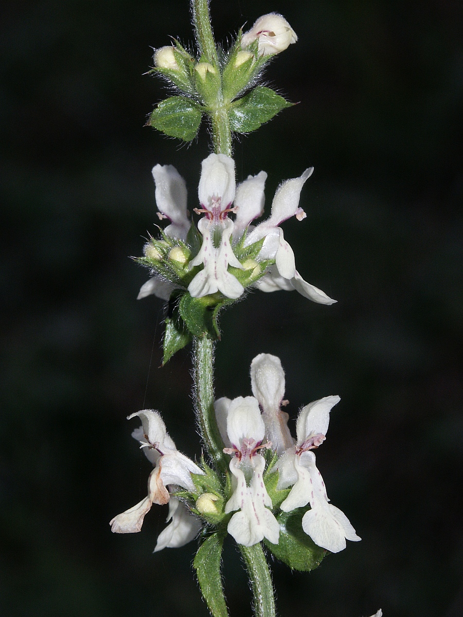 Stachys recta, Hohenlohe, Germany